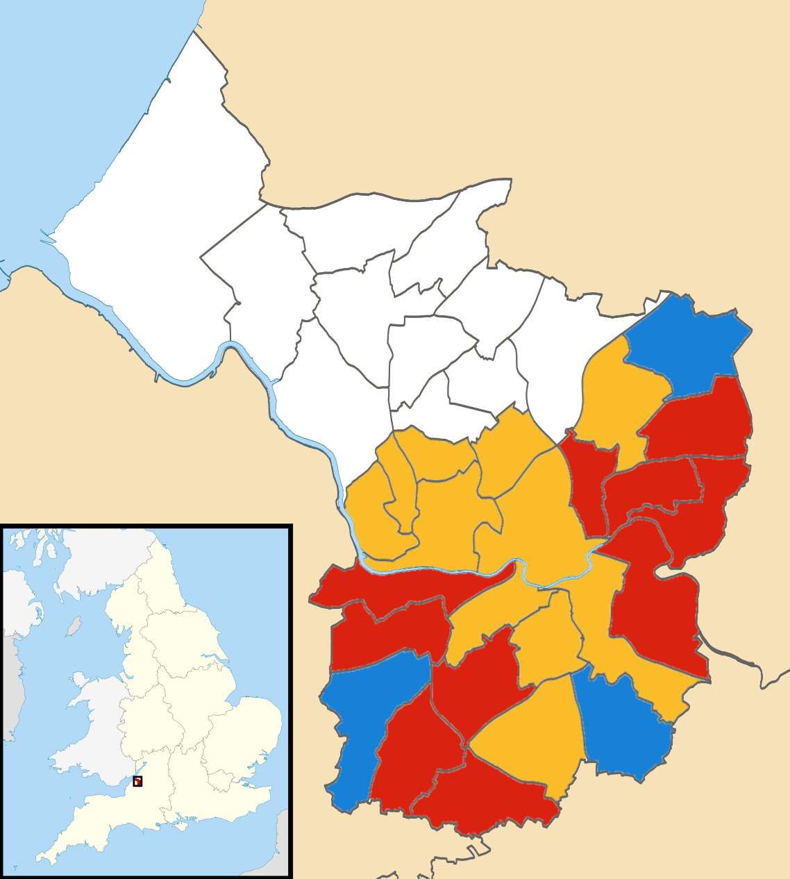 Results of the 2007 local elections in Bristol Colours: Conservative Labour Liberal Democrat No election in 2007